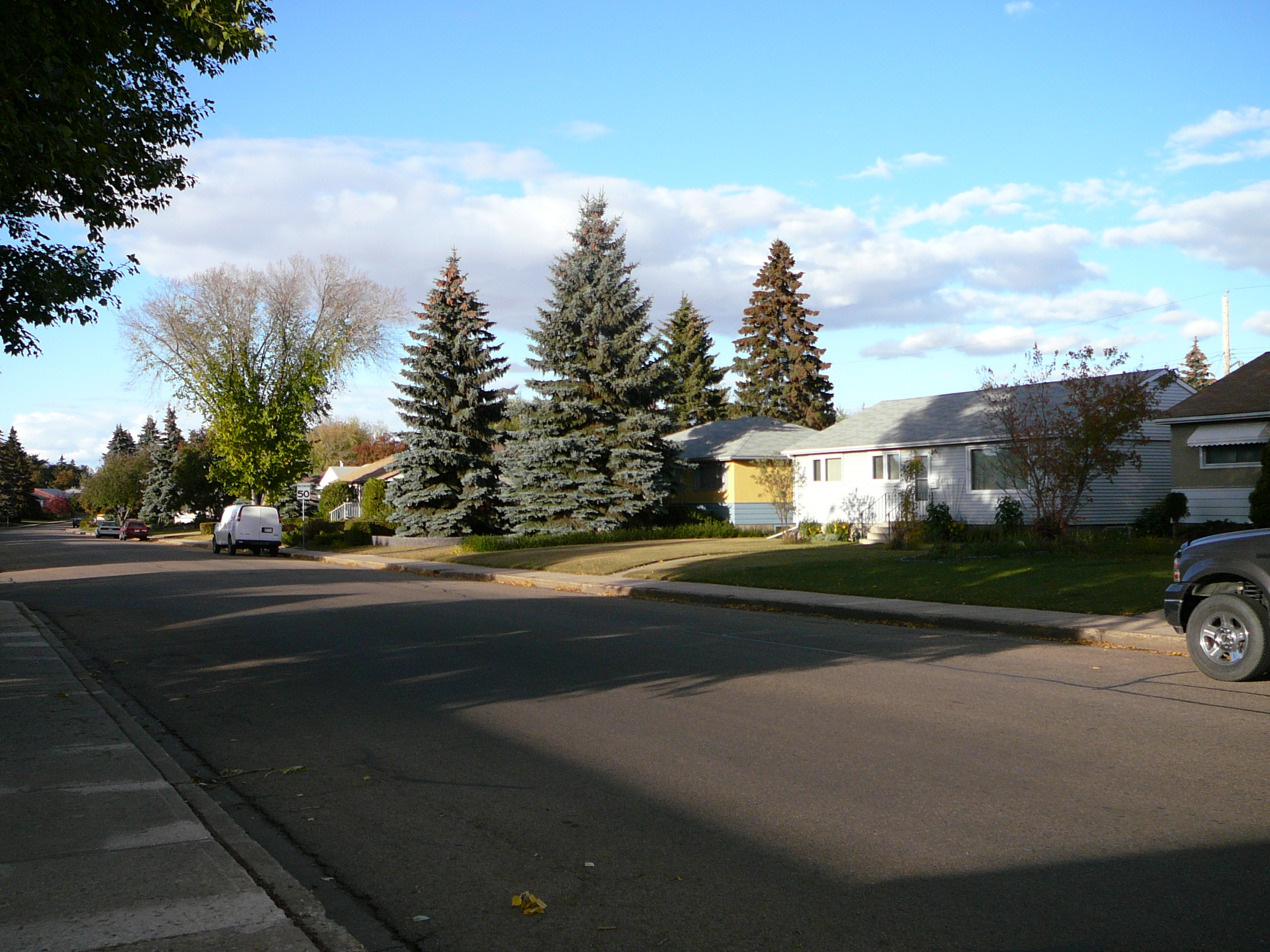 I took this picture myself on September 25, 2007. It is a Capilano residenctial street looking north from 106 Avenue.